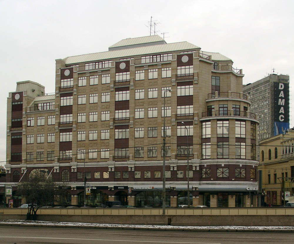 Arbat Street, Moscow. TNK-BP head office.